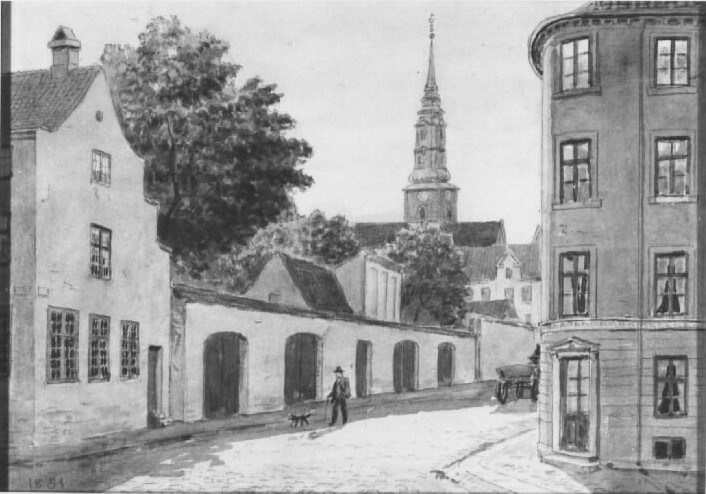 Hjørnet ved Fiolstræde. Bag muren tv. resterne af universitetes første botaniske have "Hortus Medicus" 1600-1770